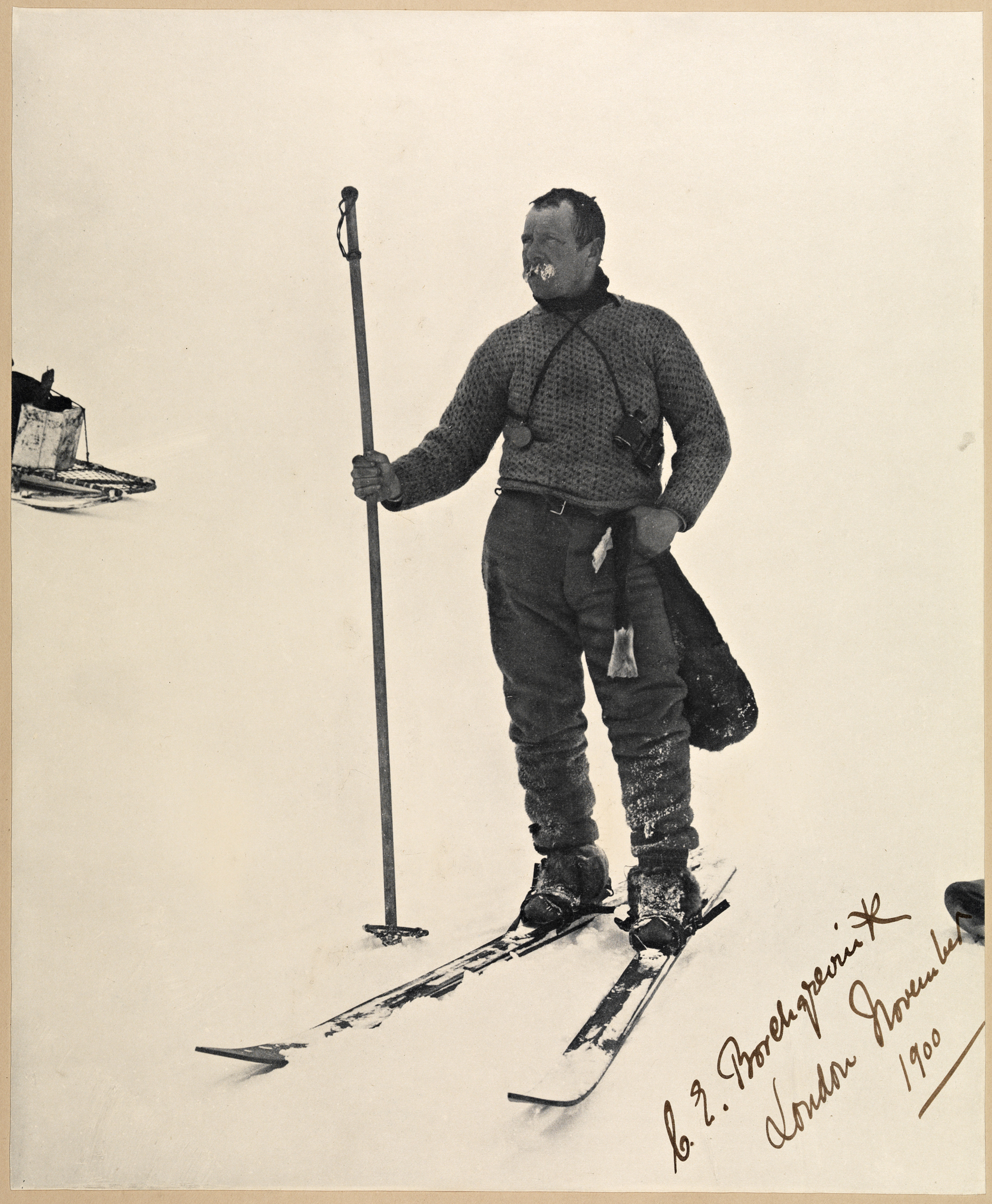 Tittel / Title: Portrett av Carsten Borchgrevink (1864-1934) Dato / Date: ca 1900 Fotograf / Photographer: ukjent / unknown Eier / Owner Institution: Nasjonalbiblioteket / National Library of Norway Lenke / Link: Bildesignatur / Image Number: blds_02208